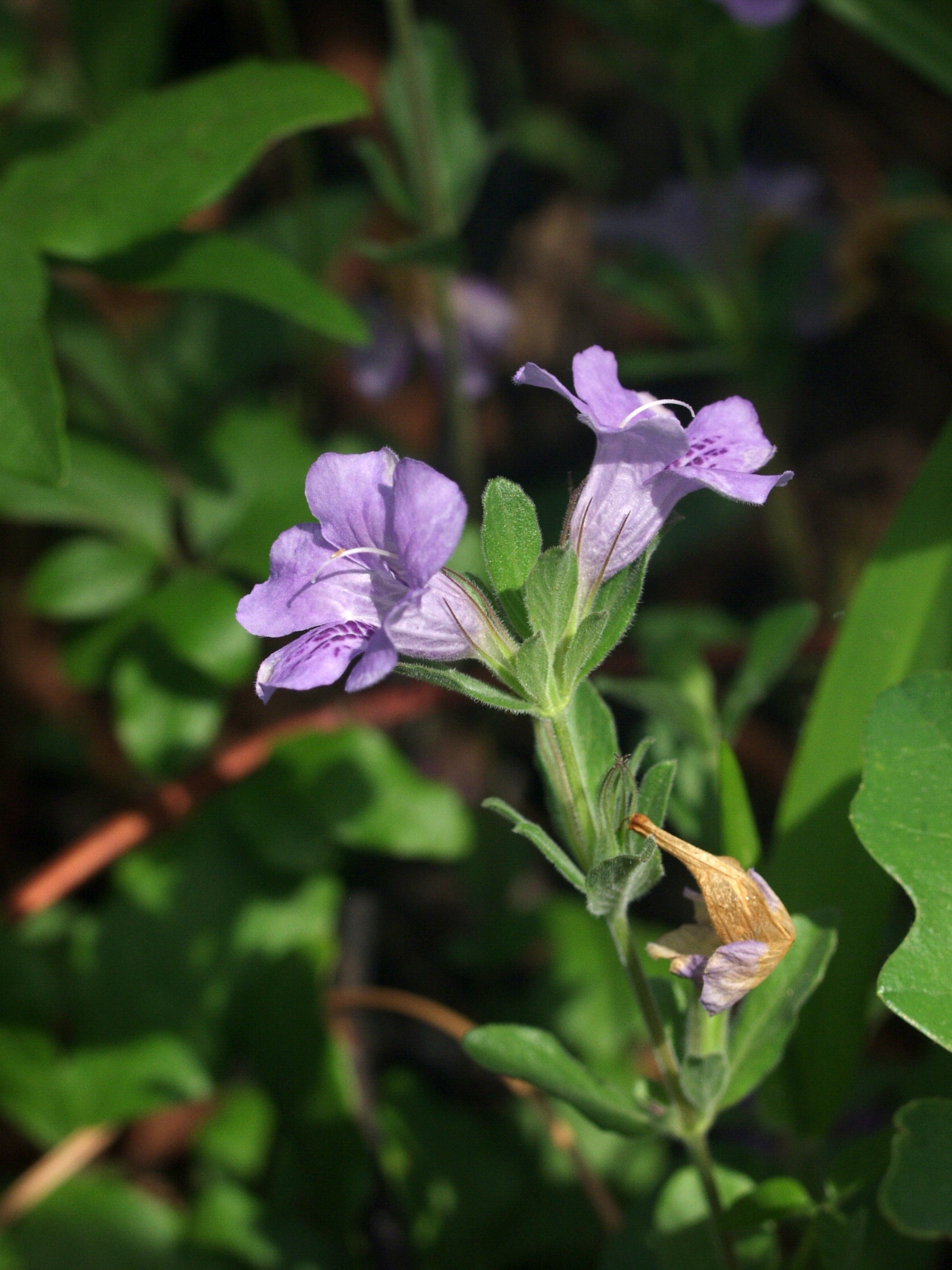 Two Dyschoriste oblongifolia flowers found in Florida